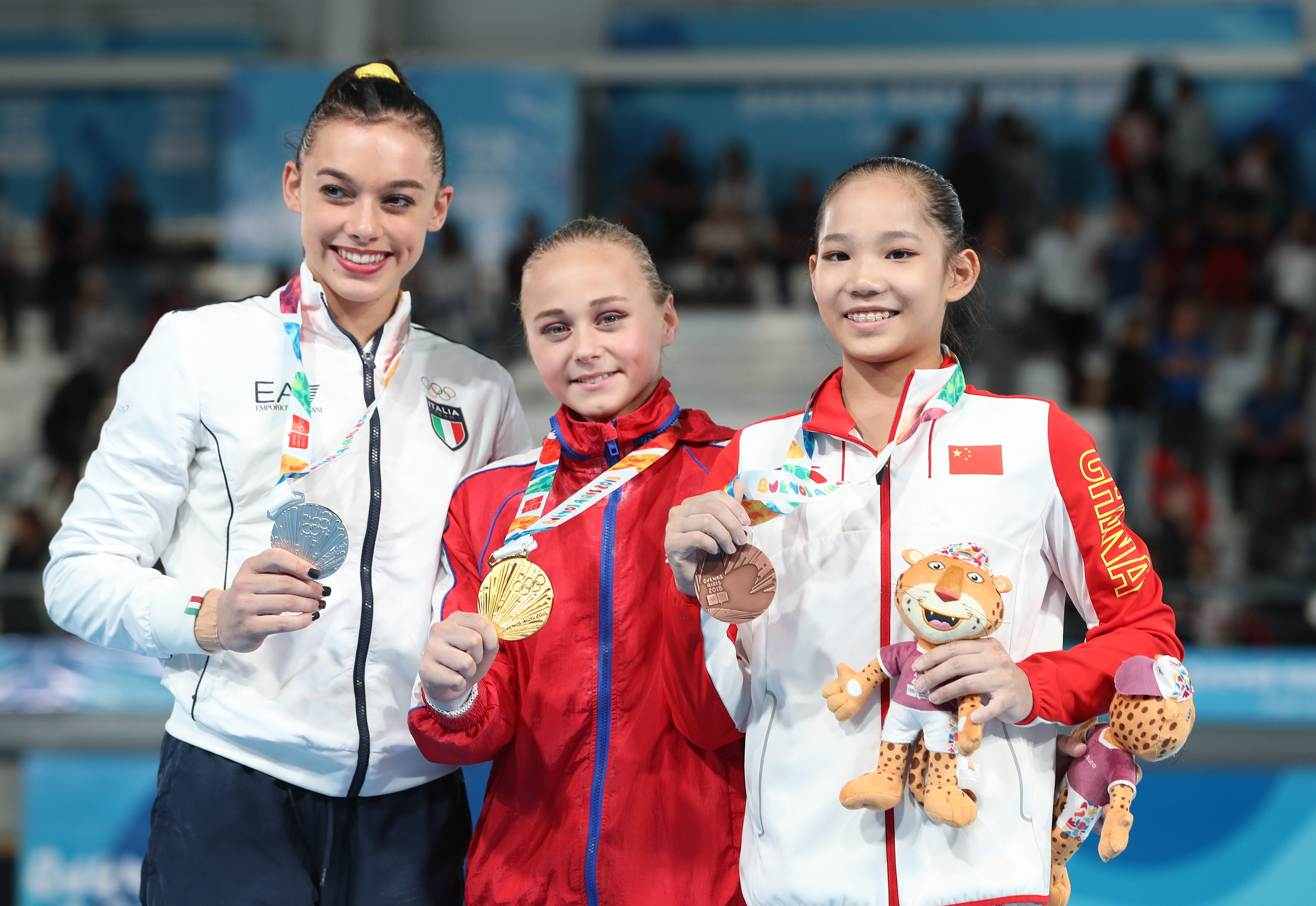 Victory ceremony for the uneven bars apparatus final of the girls' artistic gymnastics at the 2018 Summer Youth Olympics in Buenos Aires on 13 October 2018. Depicted: Giorgia Villa. Ksenia Klimenko. Tang Xijing.